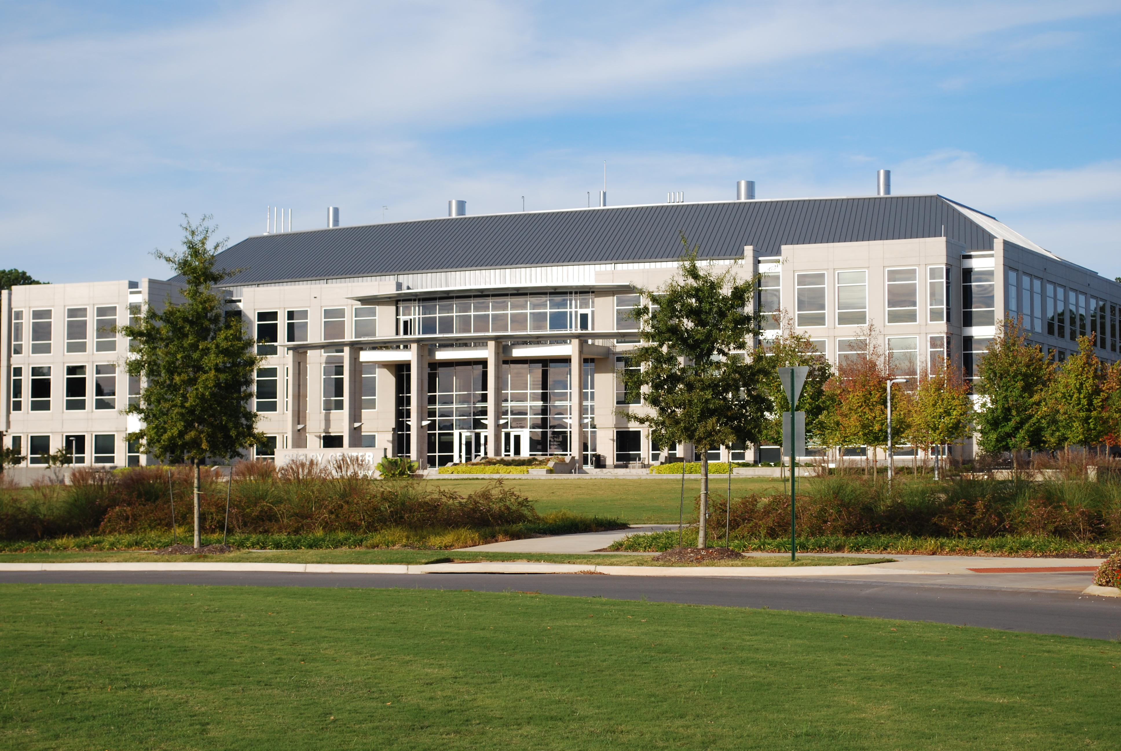 Photo of the Shelby Center for Science and Technology on the University of Alabama in Huntsville campus.